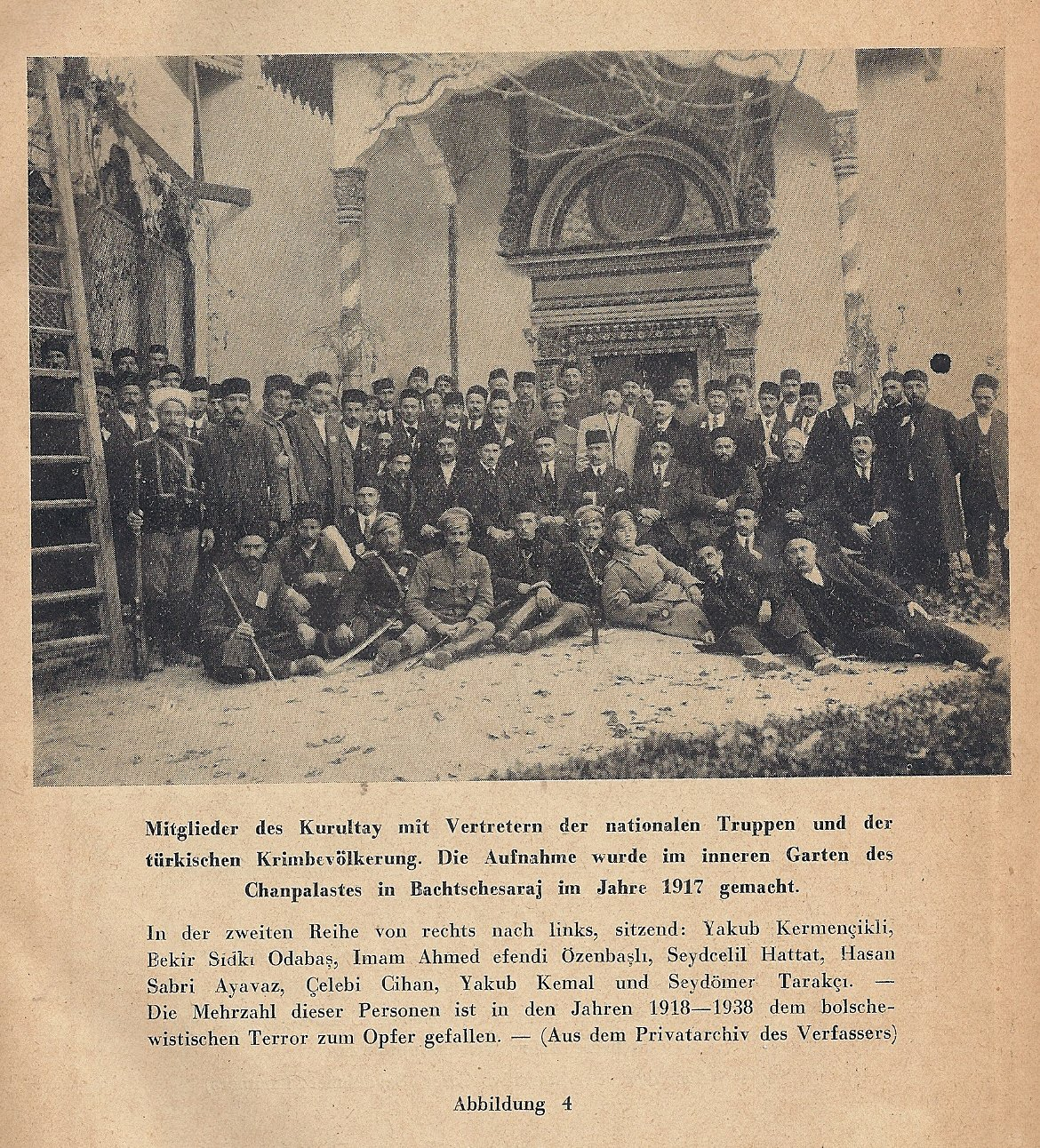 Participants of the Kurultay of 1917.